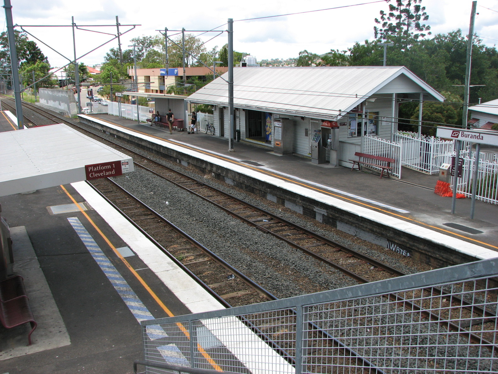 QR Buranda Station. Looking towards Cleveland & the Citytrain Platforms by Qld matt 12:53, 3 March 2007 (UTC)